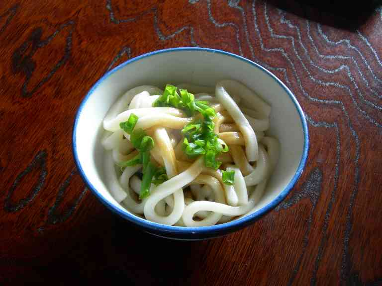 Ise-udon of Ise city, Mie prefecture Japan.